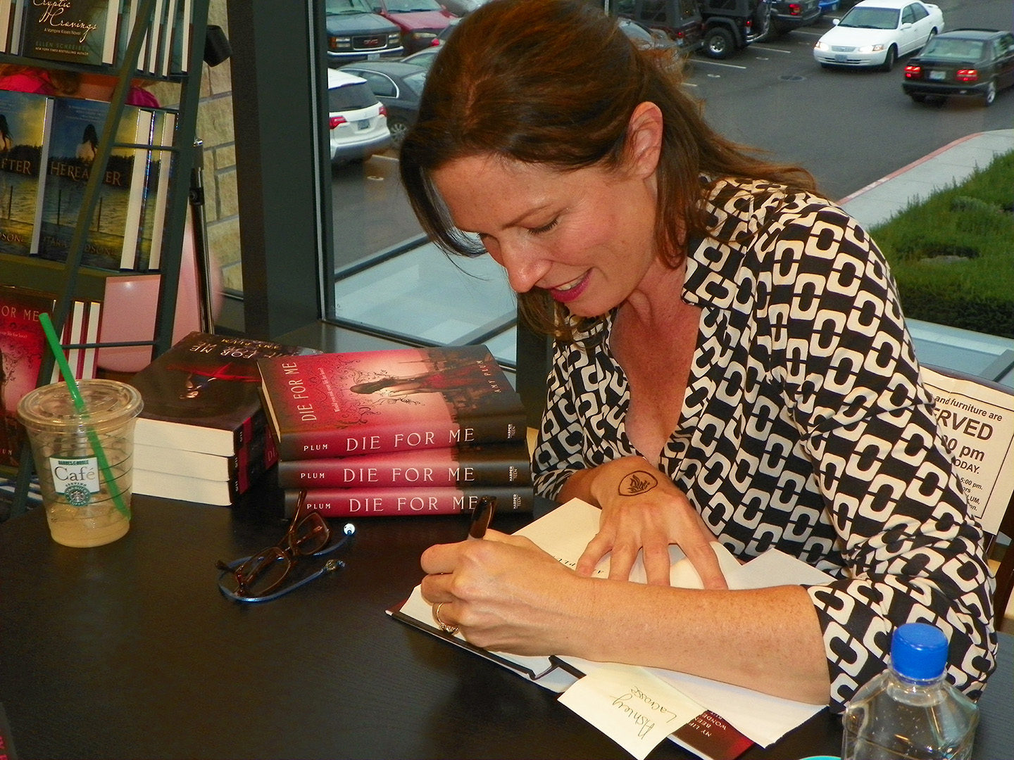 A 2011 photo of young-adult fiction writer Amy Plum. Taken in Portland, Oregon.